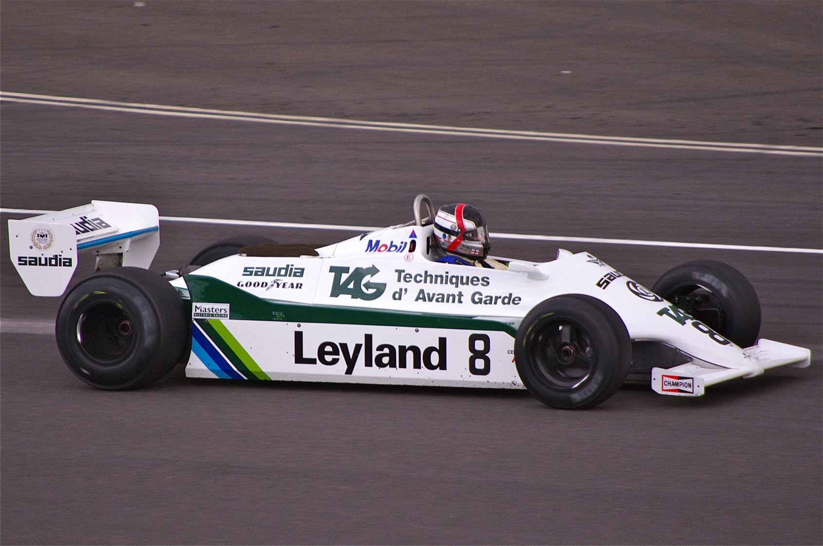 Silverstone Classic 2011